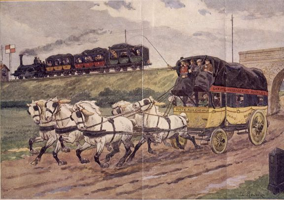 Railway and stagecoach, by J. L. Beuzon.